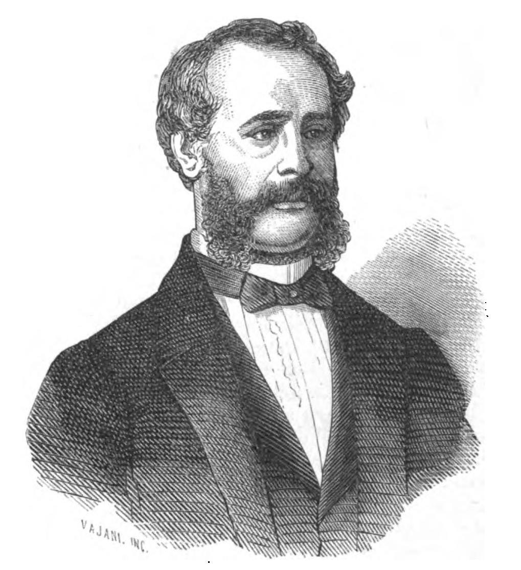 Depicted person: Cirillo Monzani – Italian historian and politician